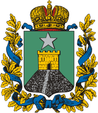 Stavropol gubernia (Russian empire), coat of arms